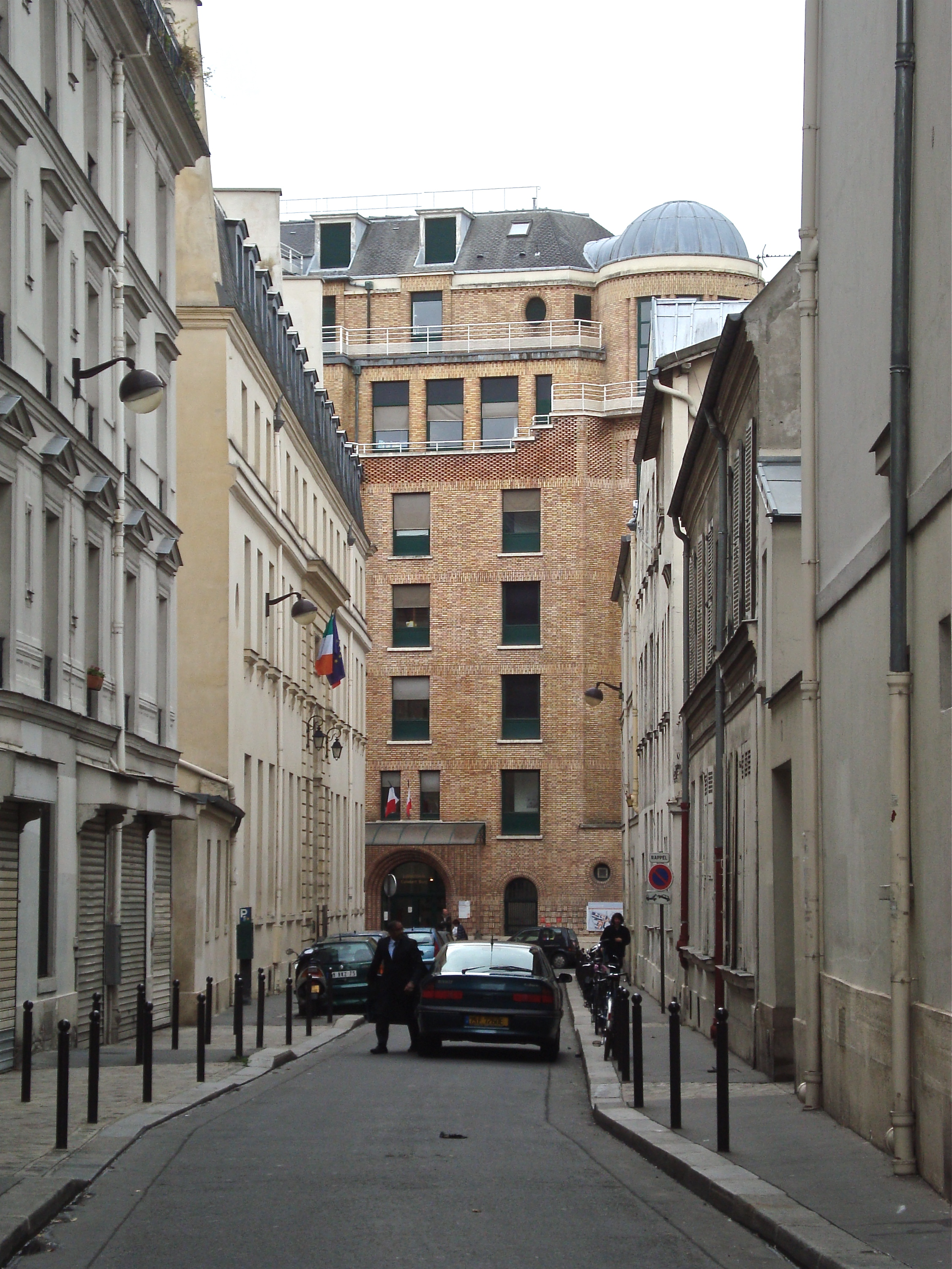 Rue des Irlandais in Paris with the Constant Burg laboratories of the Institut Curie in the back